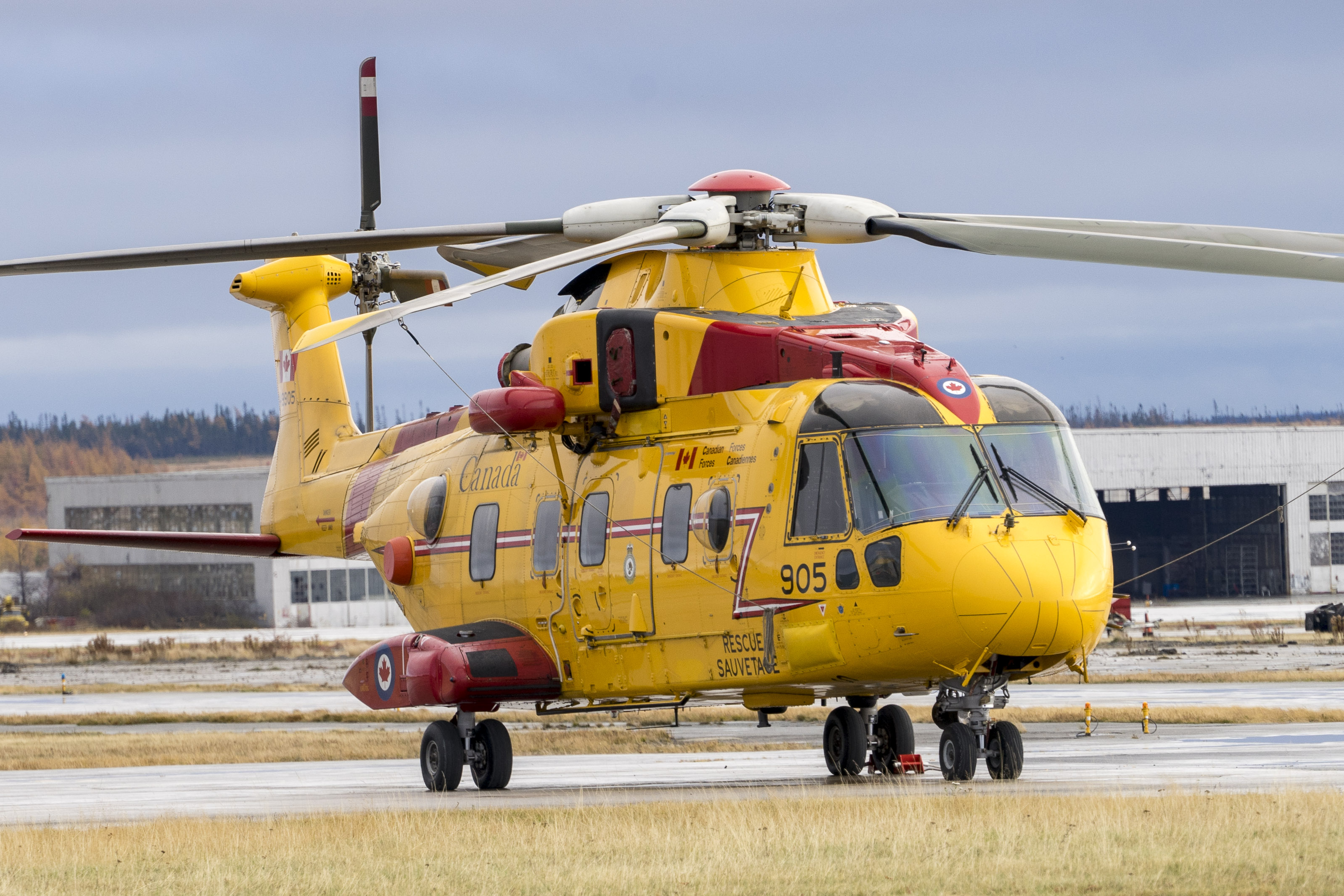 CH-149 Cormorant stationed at 103 SAR Base in Gander, Newfoundland.